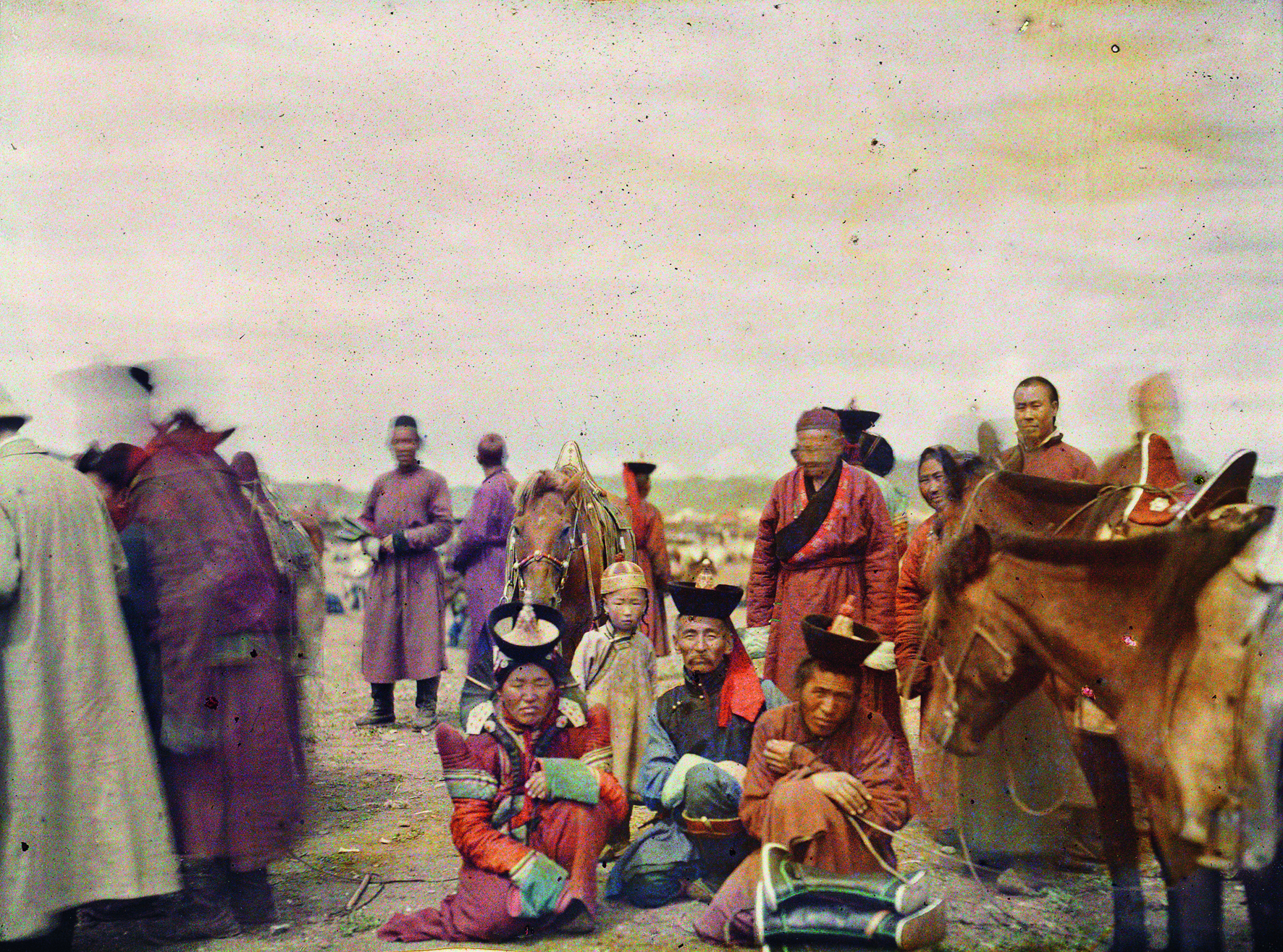 The minister of Finance of independent Mongolia on the market place, Urga, Mongolia. Autochrome from Albert Kahn's Archives de la planète